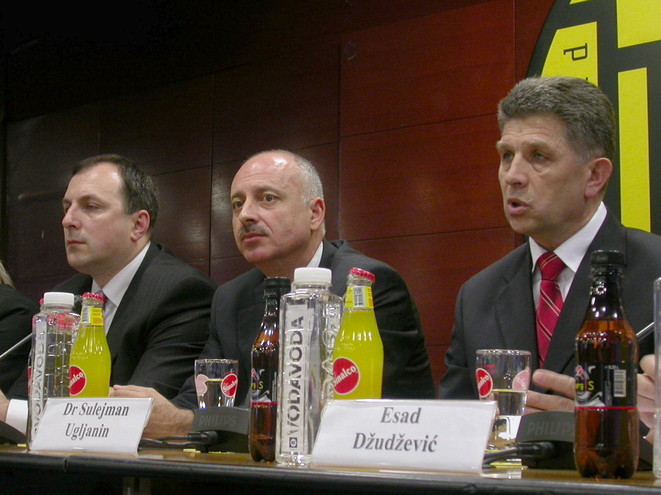 Bajram_Omeragić_i_Sulejman_Ugljanin